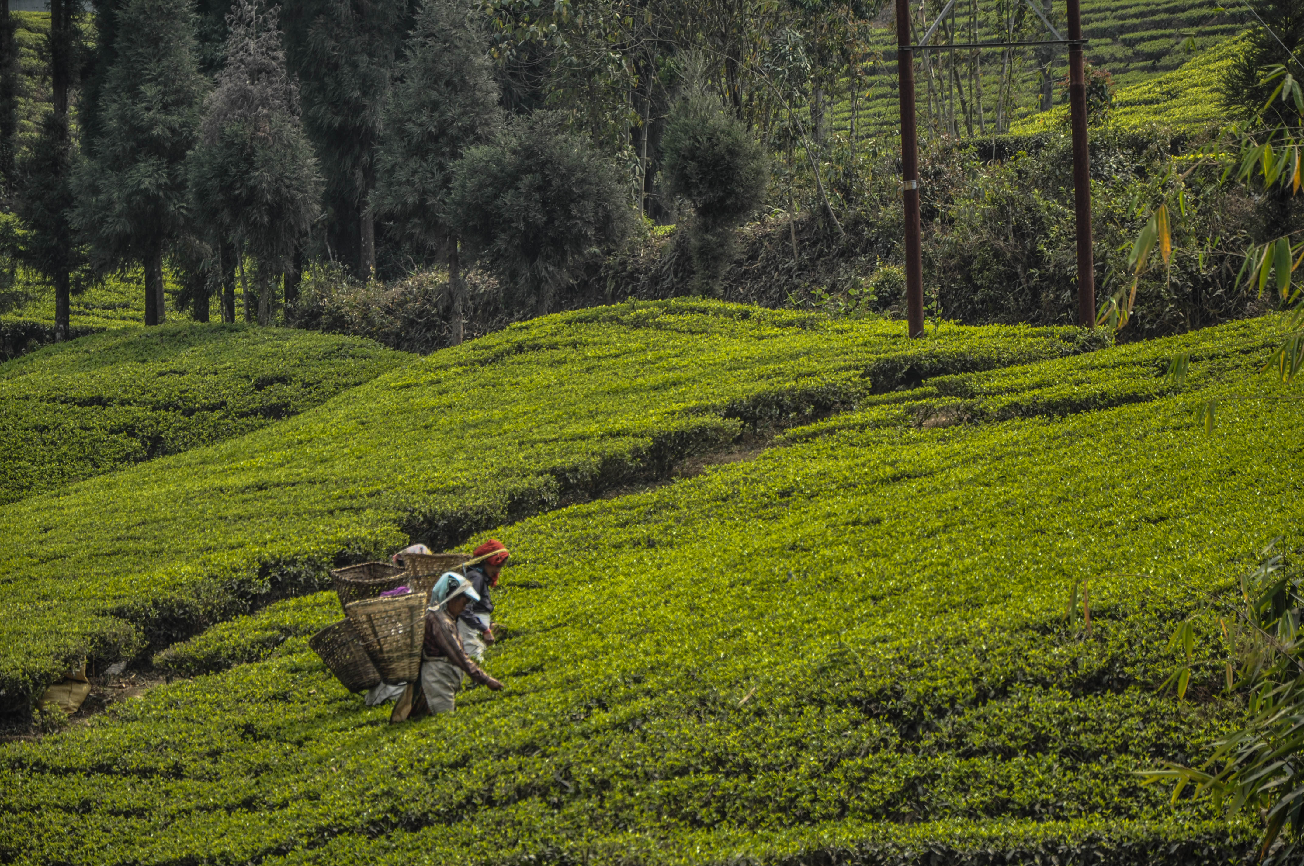 Women's plucking tea at Kanyam Tea State, Ilam.